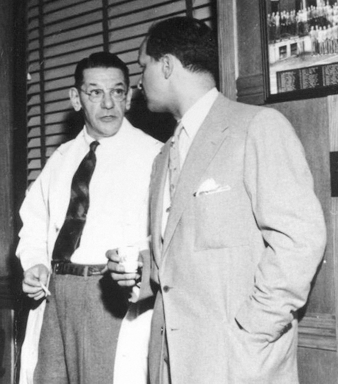 Dr. Allan G. Brodie (left), with Dr. Earl W. Renfroe, photo courtesy University of Illinois at Chicago College of Dentistry.